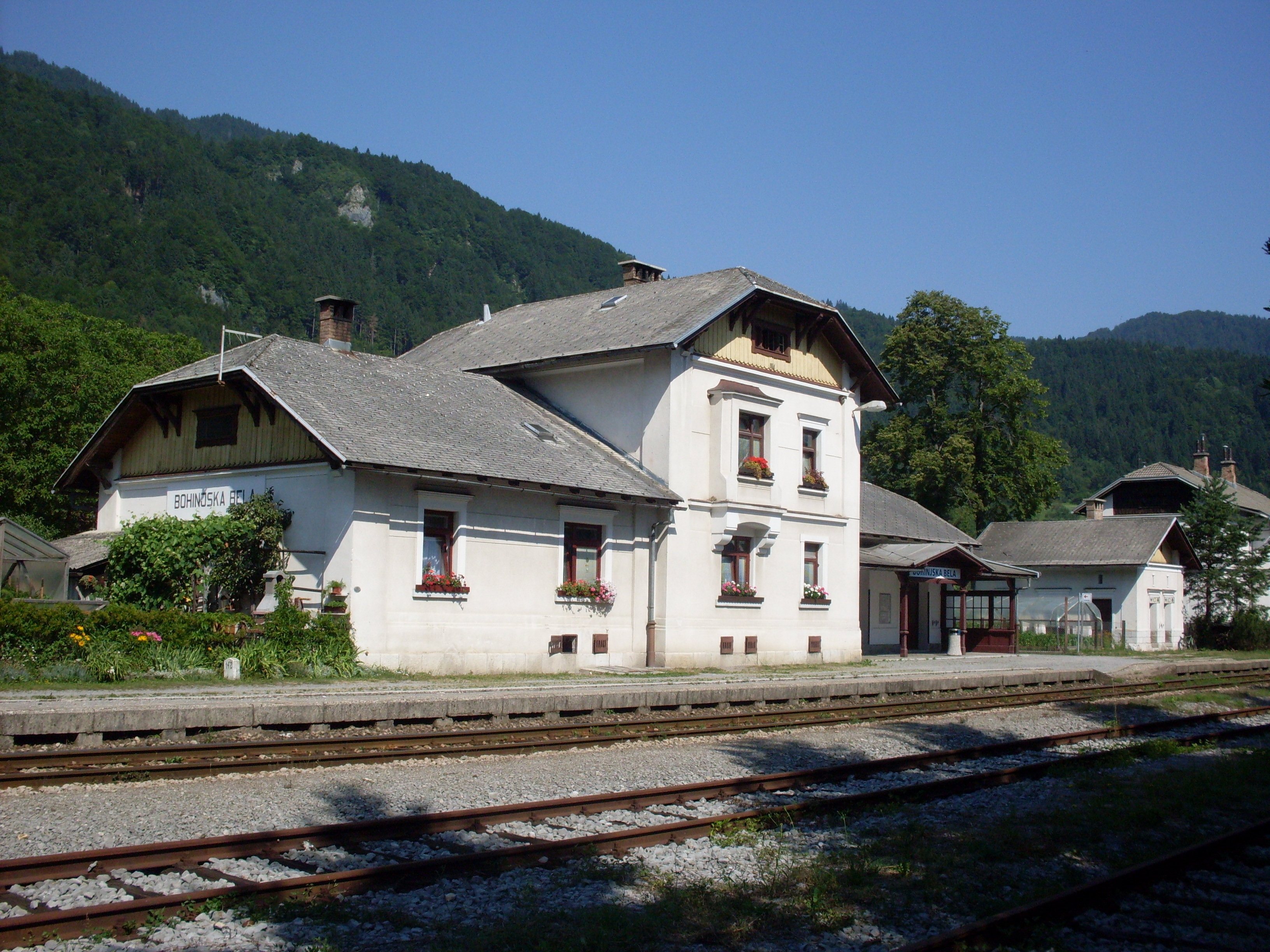 Railway halt in Bohinjska Bela, Slovenia